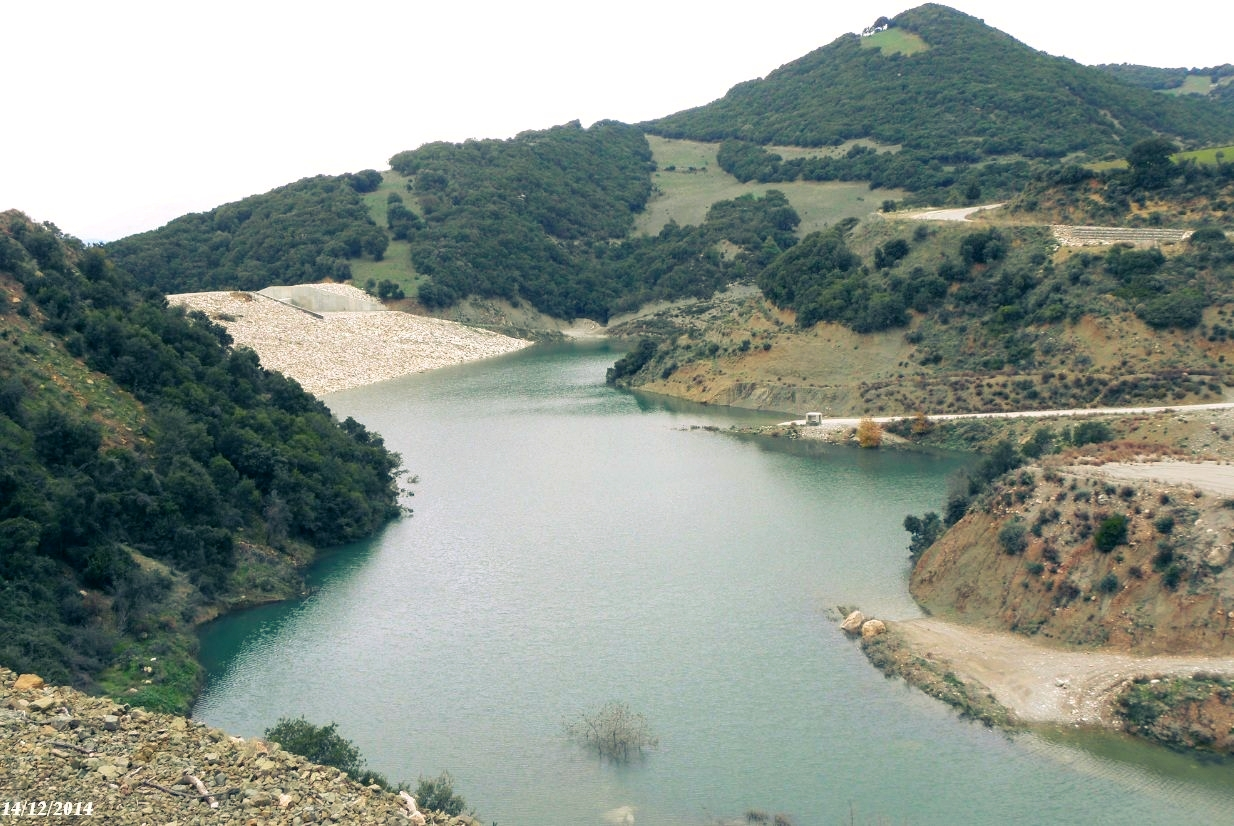 View of Ntaska Reservoir near Velimachi village, Achaia, Greece.